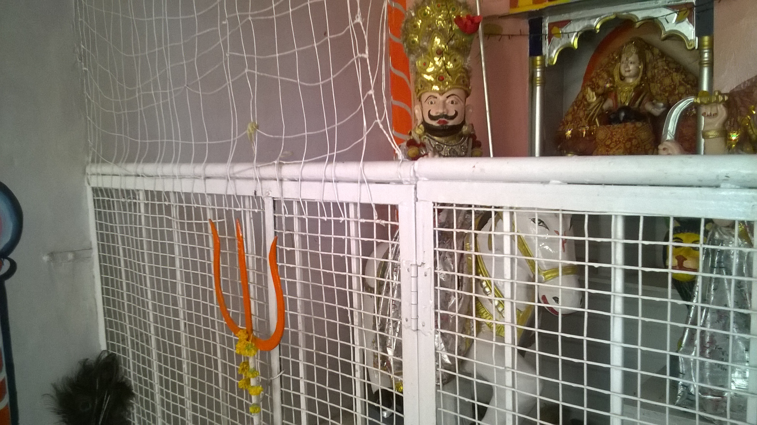 Ramdev Pir Temple, Nogama, Bagidora, Dist. - Banswara (Raj.)